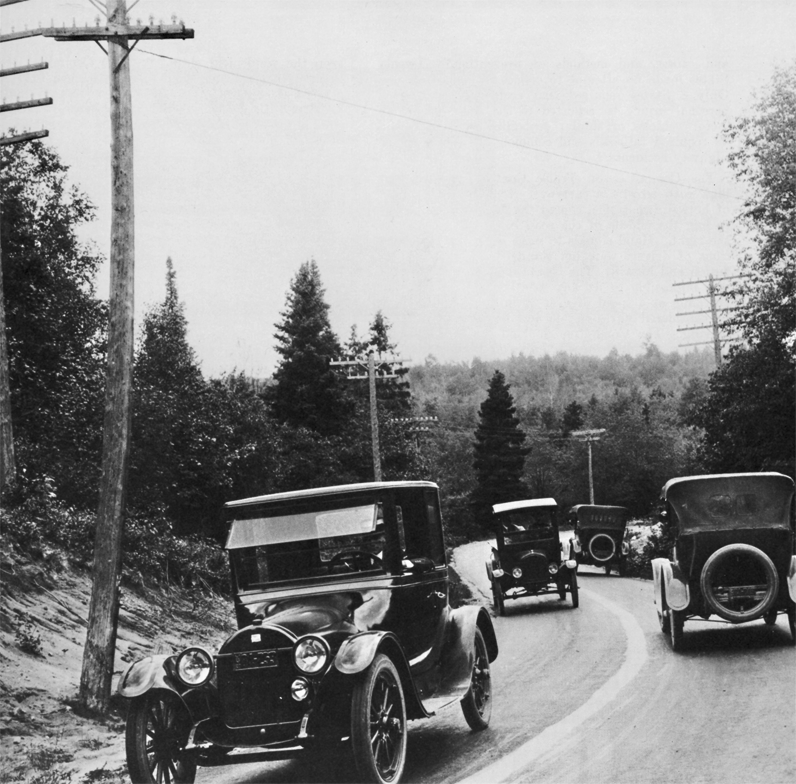 Hand-painted centerline on state highway M-15 (now County Road 492) in Marquette County, Michigan, United States